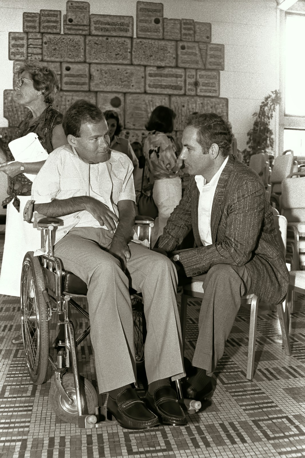 Benjamin "Bibi" Netanyahu speaks with Sorin Hershko, one of the soldiers wounded in the Entebbe rescue operation, at Beit Hanassi in Jerusalem. בנימין נתניהו משוחח עם סורין הרשקו, אחד מהחיילים שנפצע במבצע אנטבה